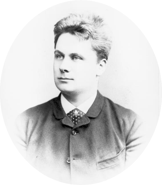 Hugo Thimig, german actor and theatre director